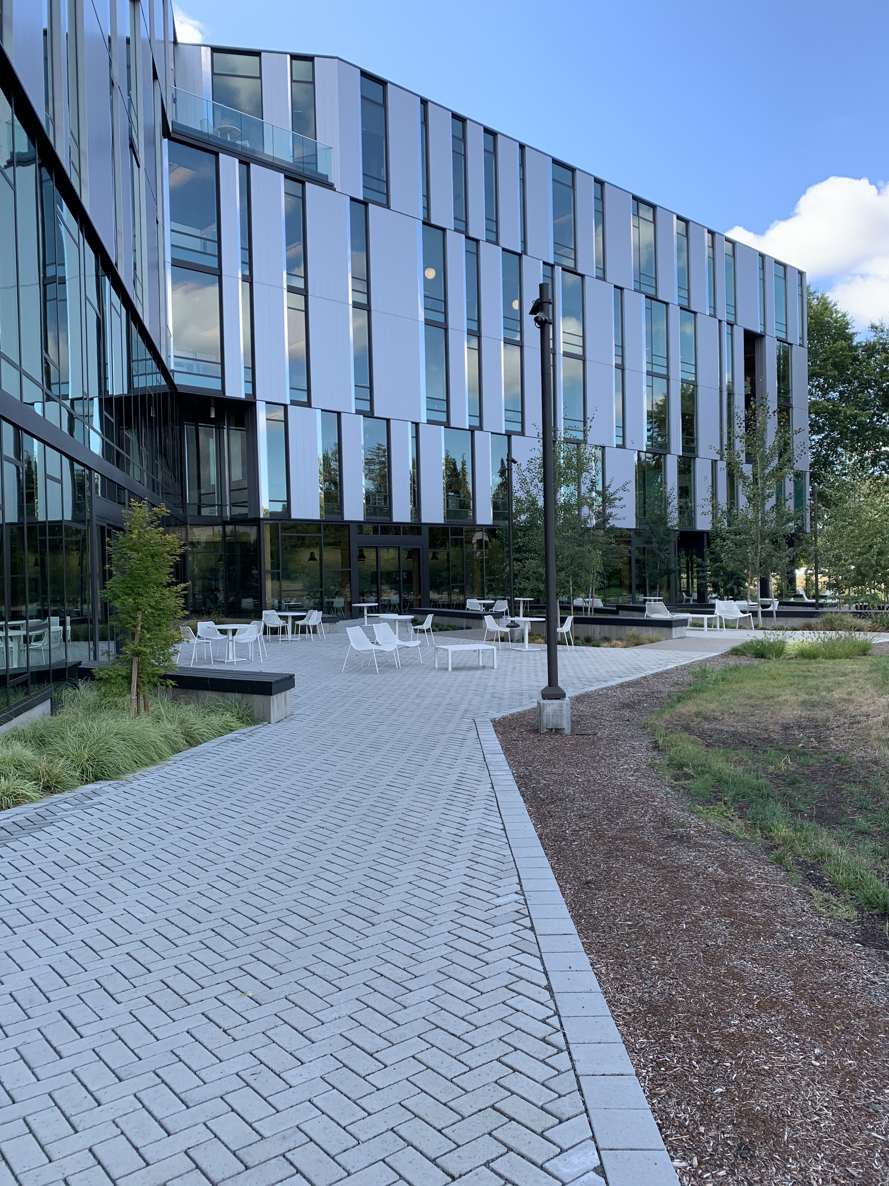 Front View